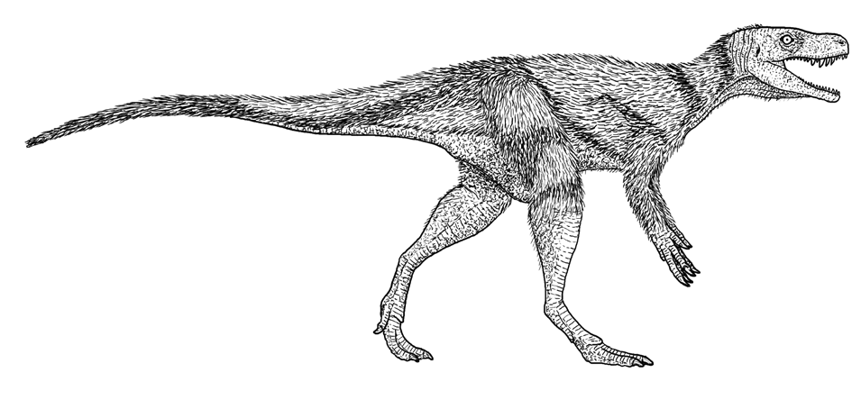 Restoration of Chindesaurus bryansmalli with likely protofeathers based on phylogenetic bracketing.